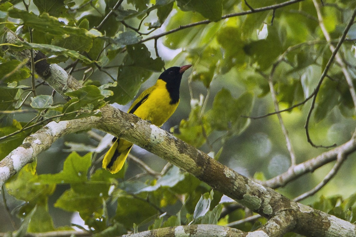 A Black-winged Oriole (Oriolus nigripennis) in the Kakum National Park (Ghana).